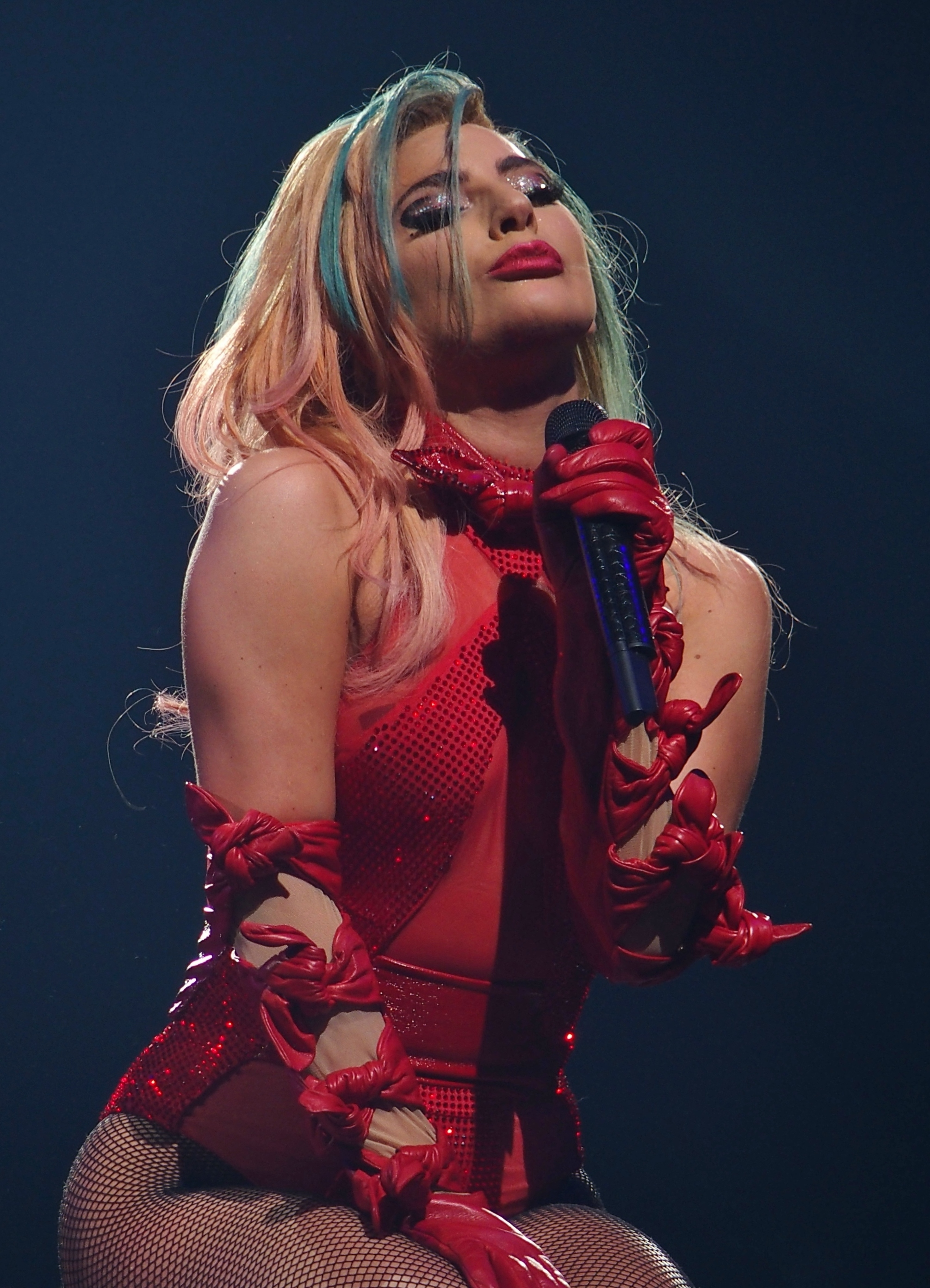 Lady Gaga, Joanne World Tour, Bell Center, Montréal, 3 November 2017 (85) Lady Gaga performing on the Joanne World Tour, in Montréal